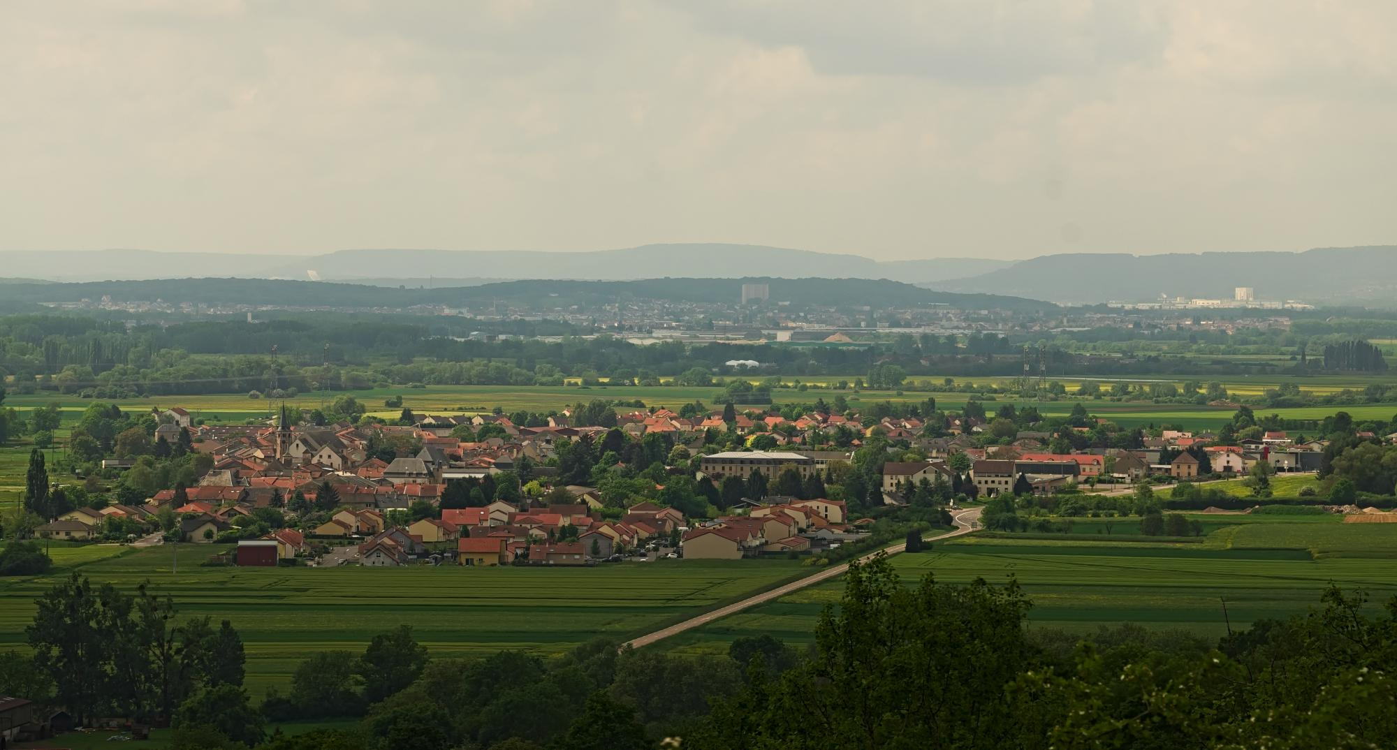 Panorama of the town of Cattenom from the top of the Galgenberg hill